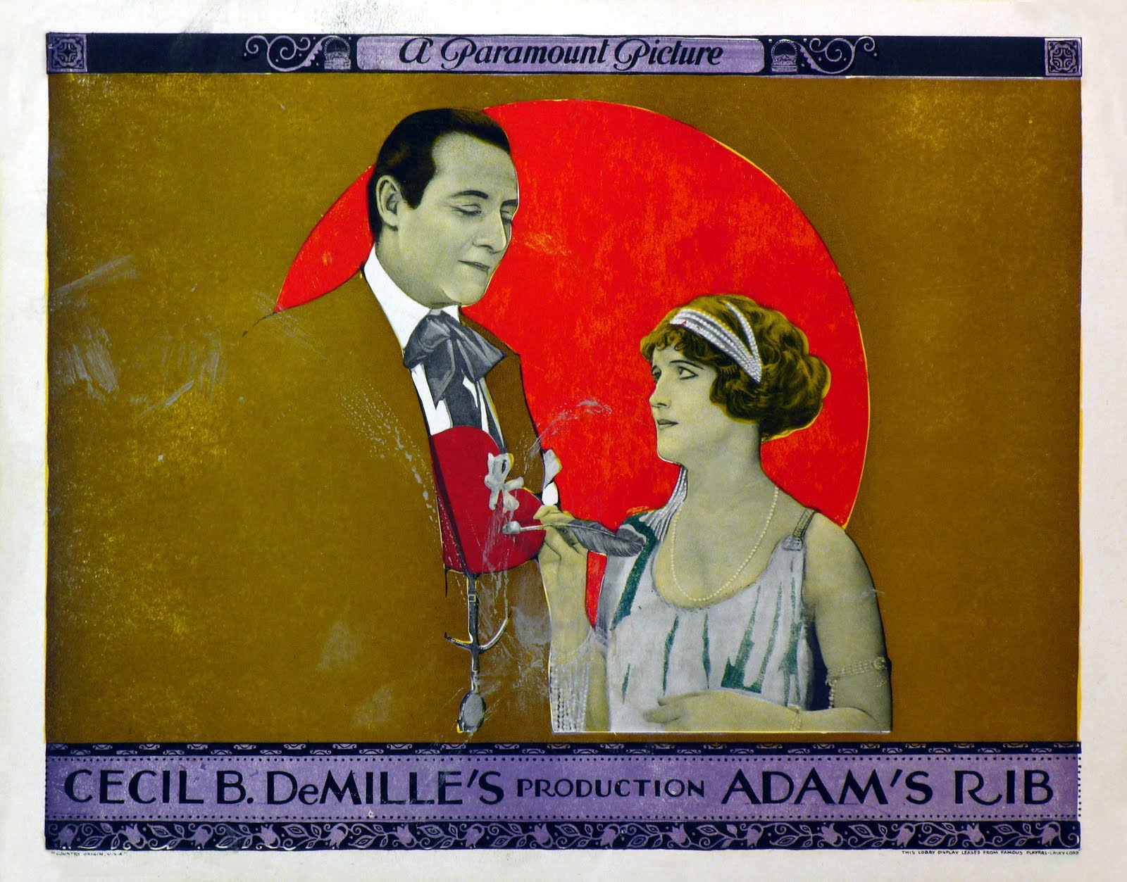 Poster for the American drama film Adam's Rib (1923). The item has no copyright markings on it as can be seen in the links above. At lower left is Country of origin USA. At lower right is This lobby display leased from Famous Players Lasky Corp.